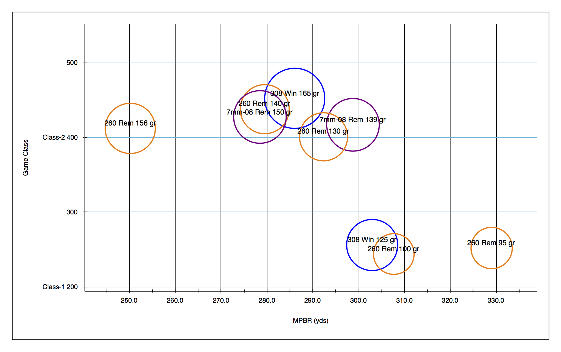 A chart of the Game Class vs 6 inch Maximum Point Blank Range of some 260 Remington cartridges. The circle sizes are proportional to recoil velocity. Other calibre's for comparison. Created with the CartridgeChooser iPad App.